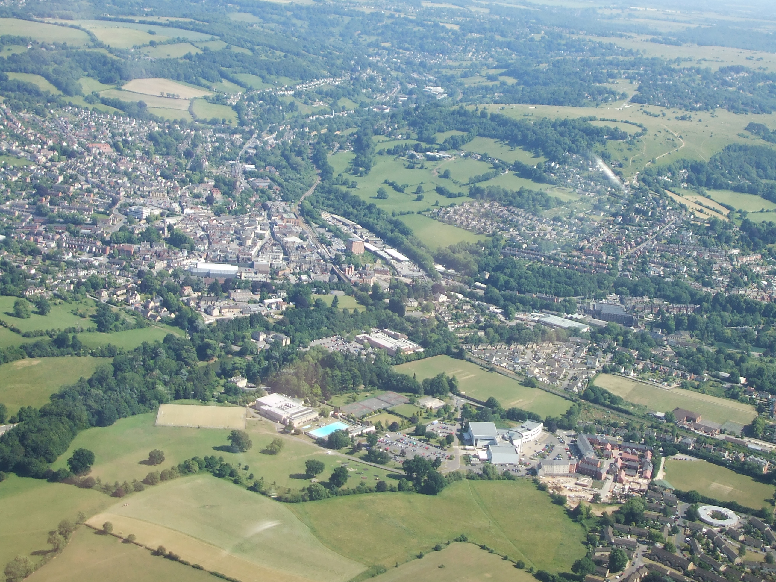 Looking south-southeast towards Stroud town centre.